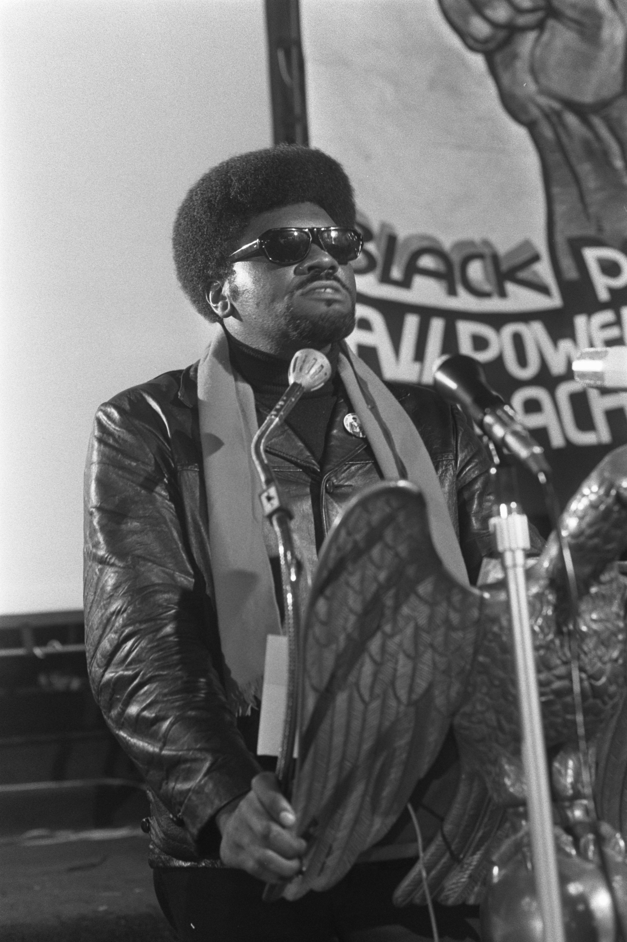 Elbert Howard gives a lecture about the "Black Panther" movement in USA in Mozes and Aaronkerk Amsterdam.